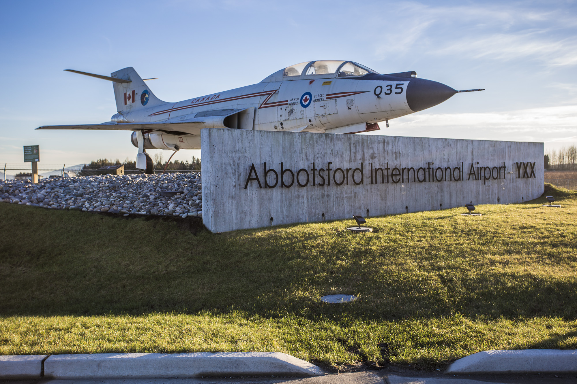 Abbotsford Airport Front Entrance featuring the Voodoo